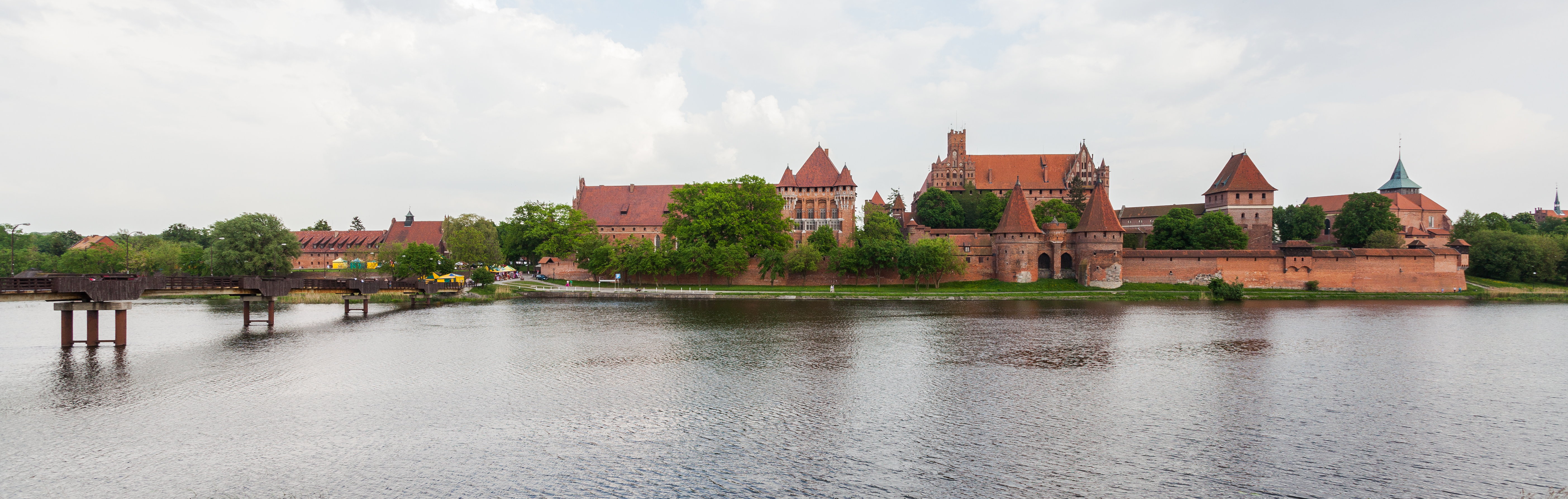 Malbork Castle, Poland